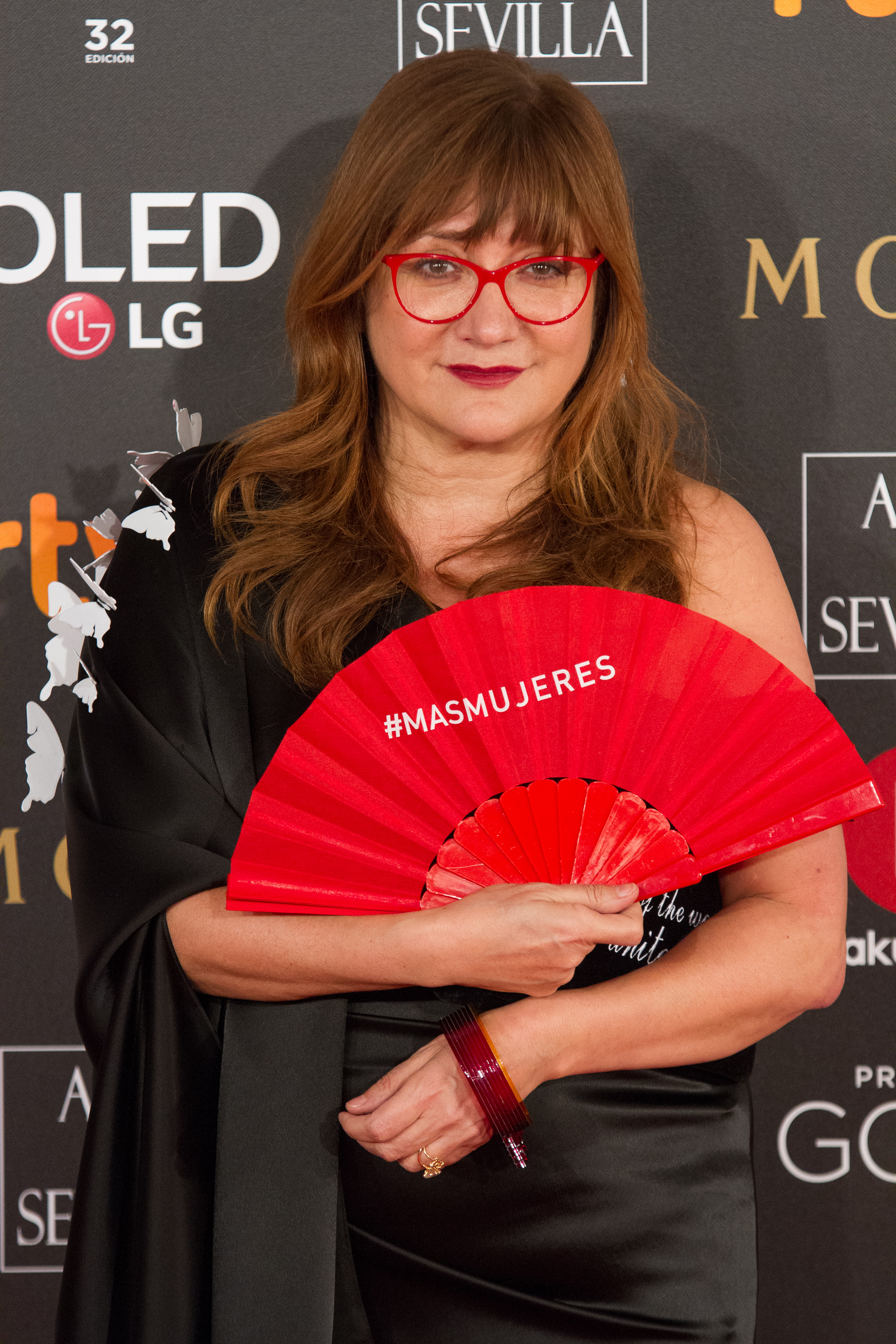 32nd Goya Awards, 2018.